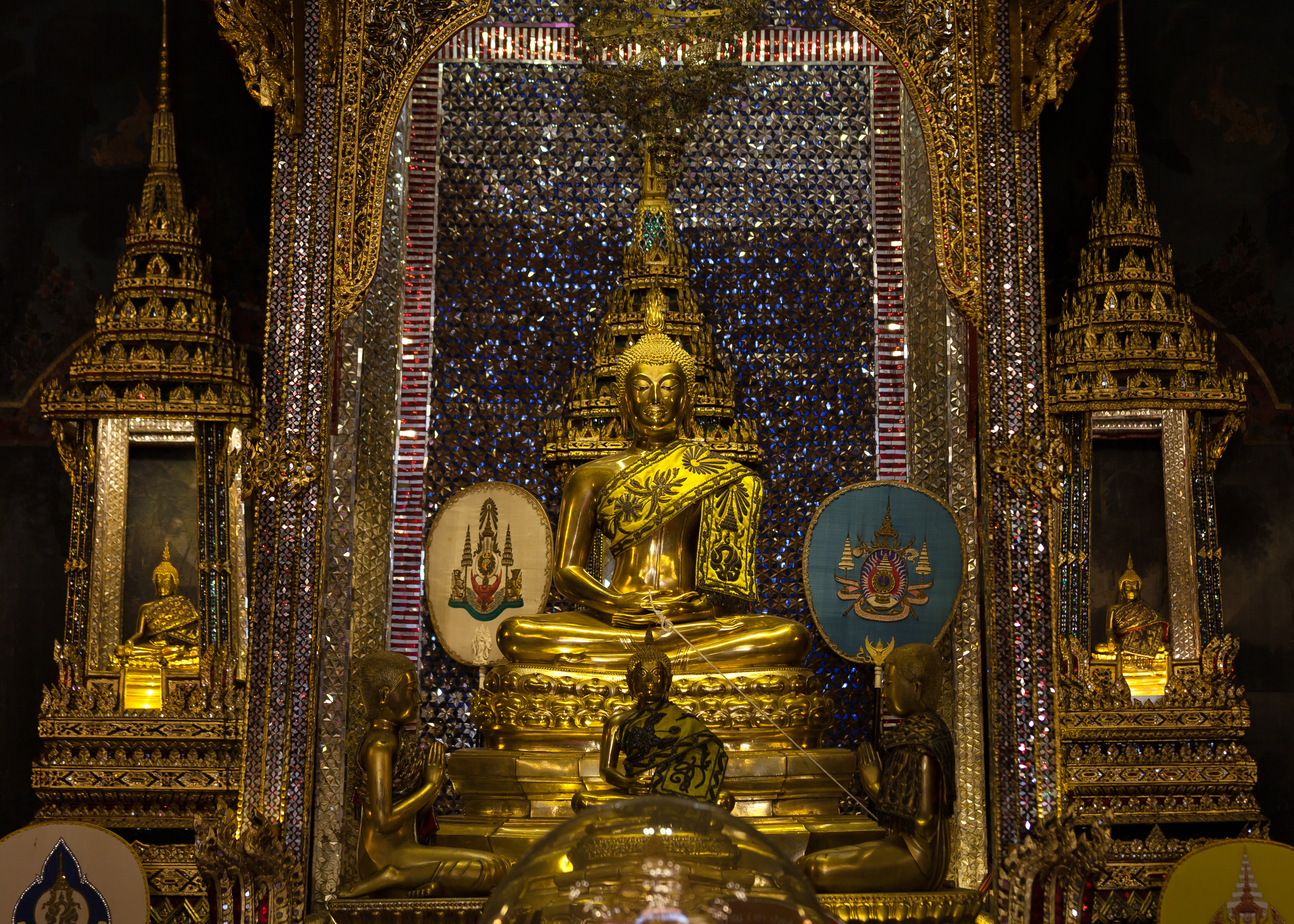 Phra Phuttha Sihing (Simulated) in Wat Ratchapradit, Bangkok.